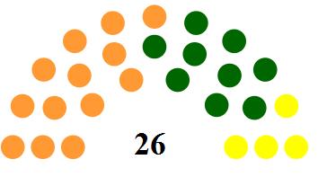 A Kozak Memorandum által létrehozandó Szenátus összetétele. Chișinău 13 (narancssárga), Transznisztria 9 (zöld), Gagauzia 4 (sárga) helyet kapott volna.